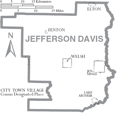 Map of Jefferson_Davis Parish, Louisiana, United States with municipal boundaries